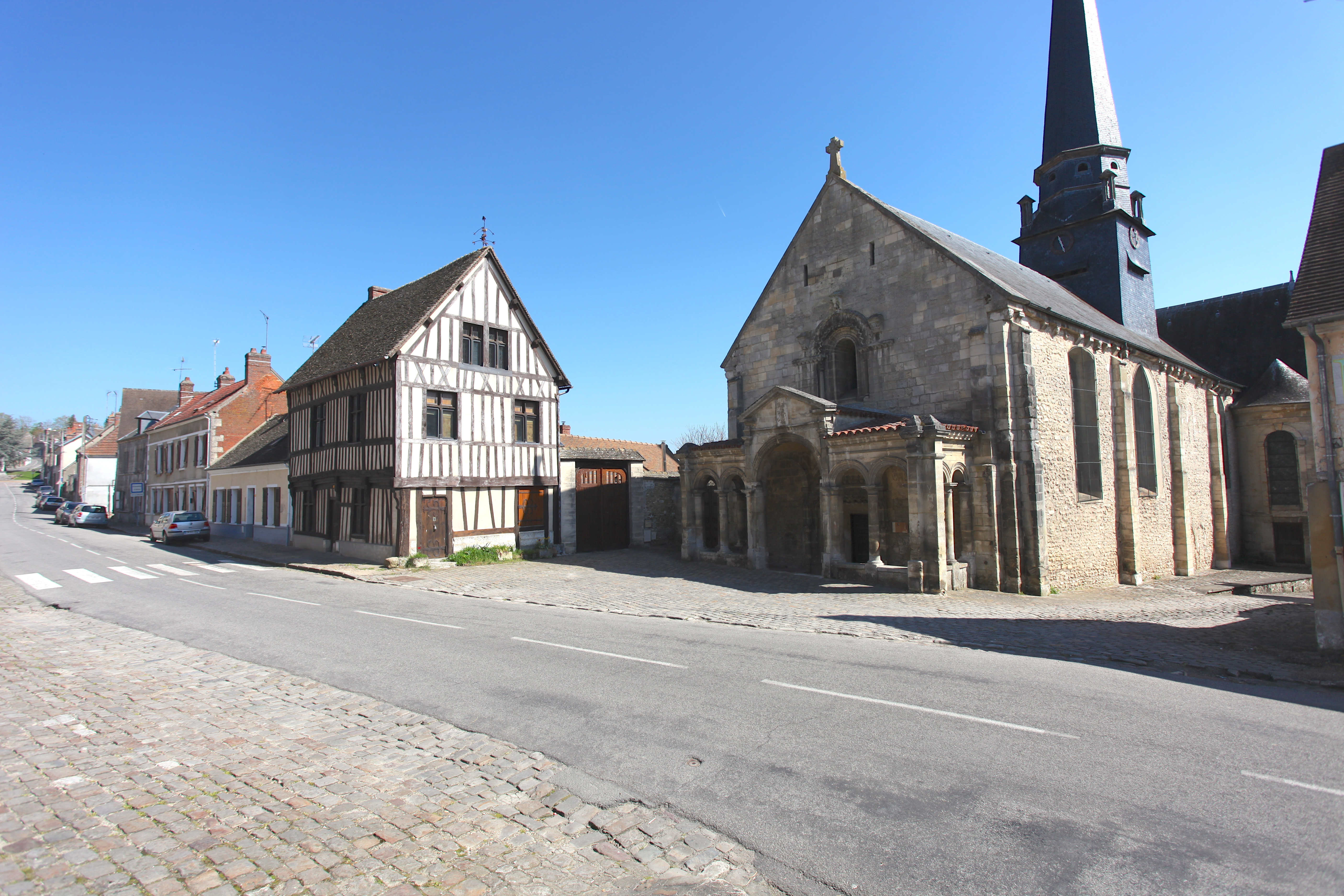 Church 'Saint Jean-Baptiste' in Dangu, France